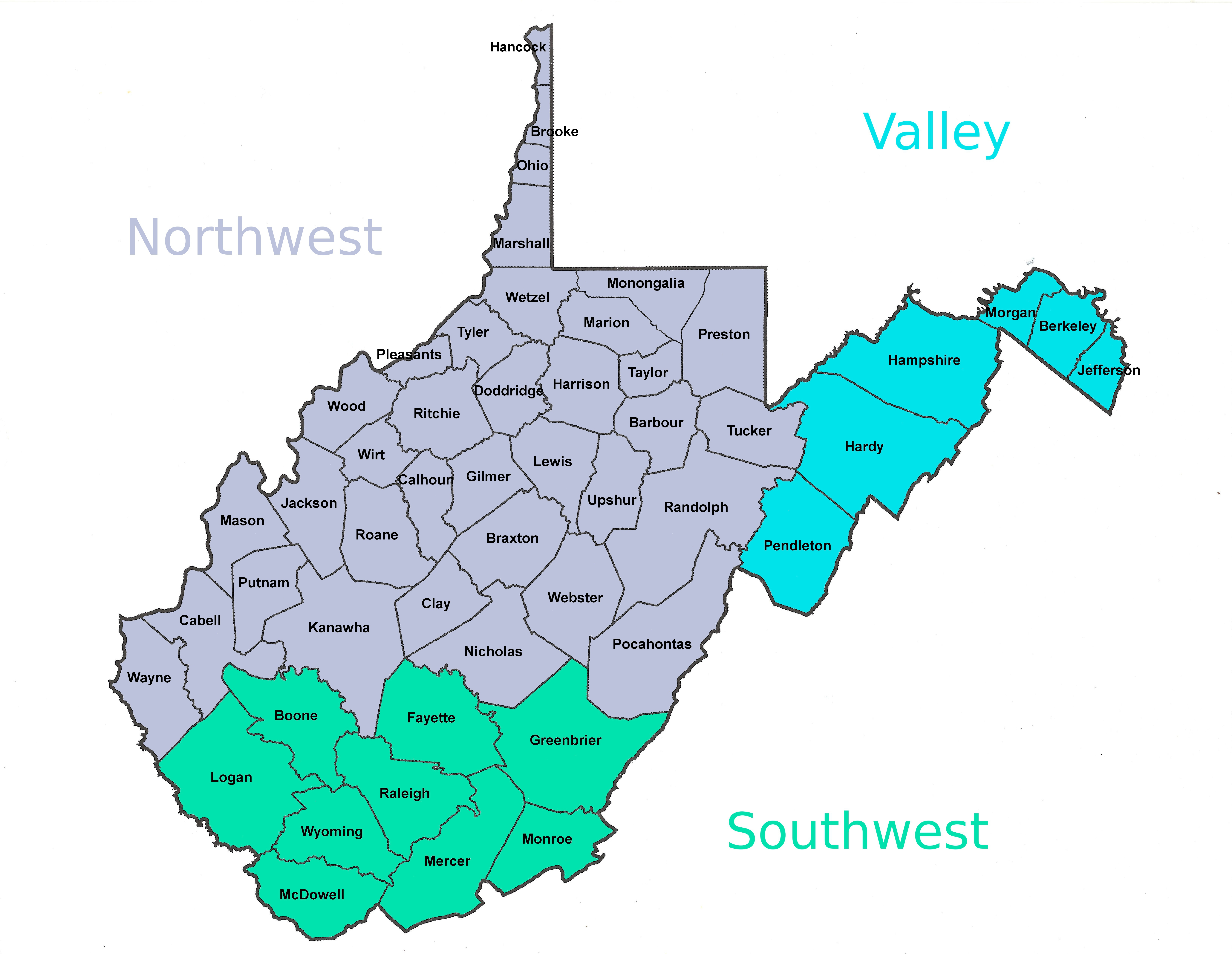 When West Virginia was created in 1863 it was composed of 50 counties of Virginia from three different regions, the Northwest, the Shenandoah Valley and the Southwest. This map shows the counties of those regions.